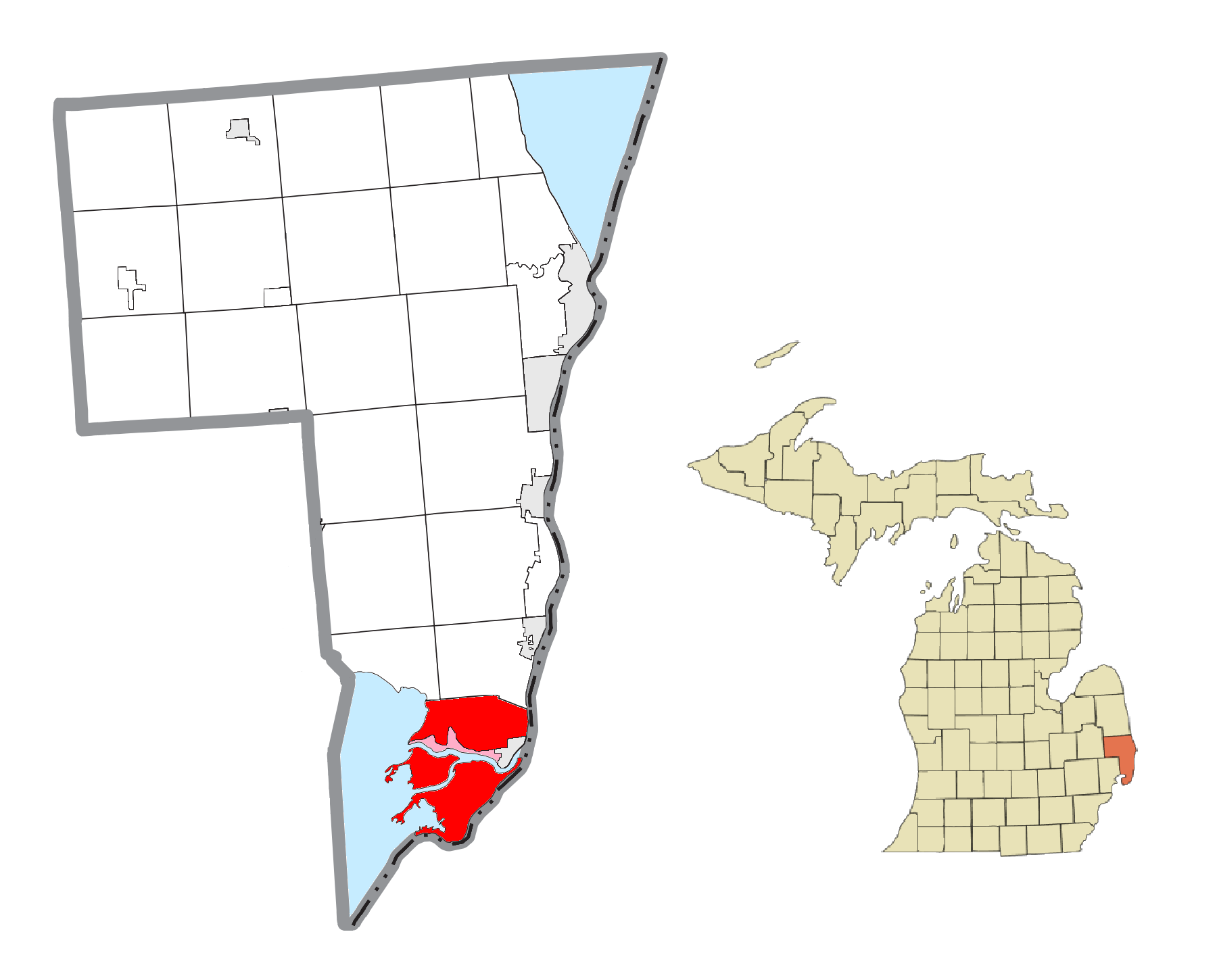 Clay Township, MI